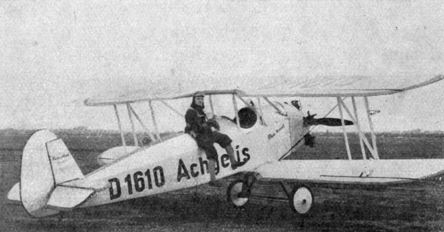 Gerd Achgelis sitting on his Focke Wulf S.24 that he flew inverted for 37 minutes on September 4, 1929. Photo from L'Aéronautique December,1929